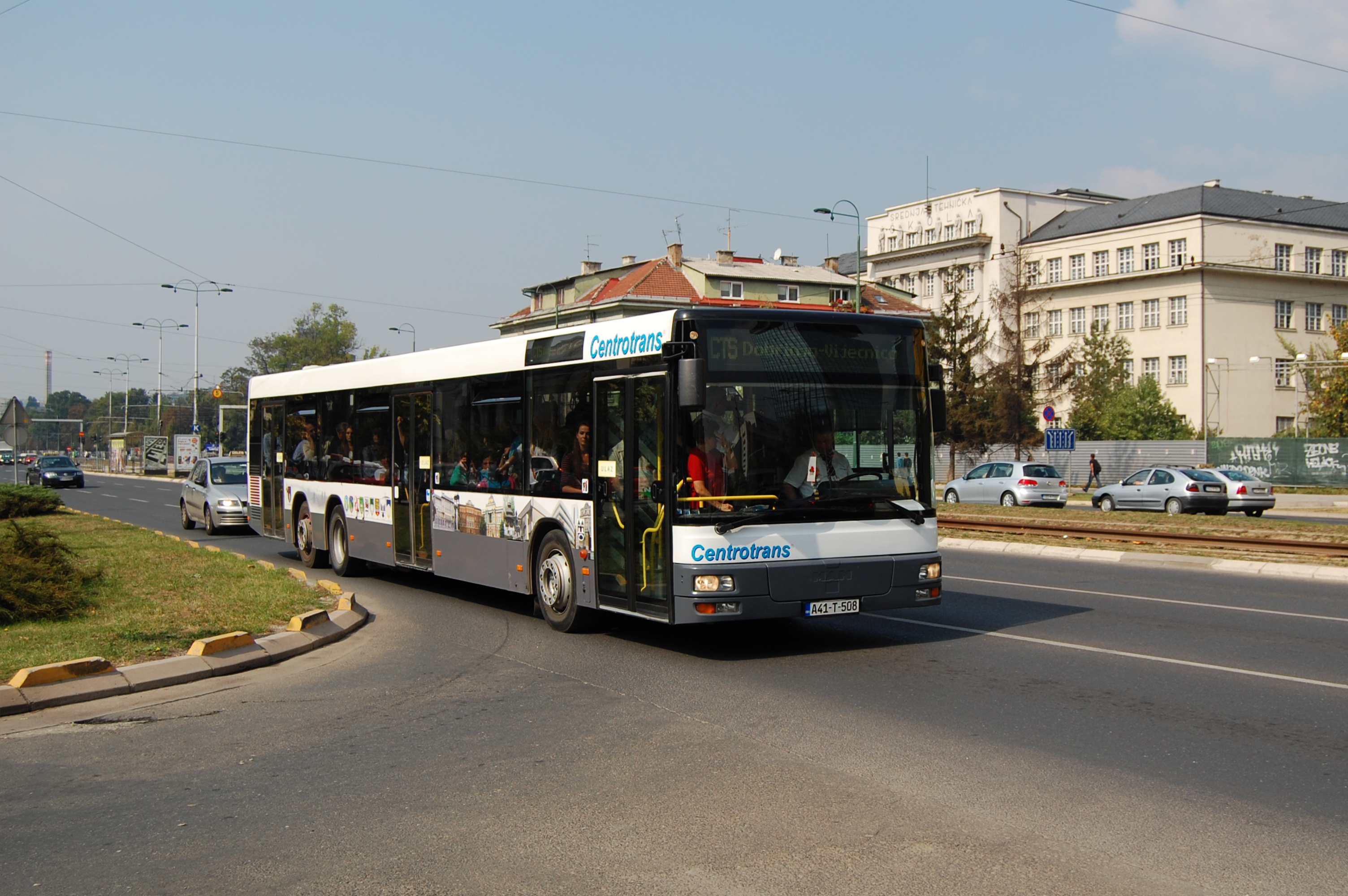 Bus on Centrotrans Line Dobrinja - Vijećnica approaching Marijin Dvor